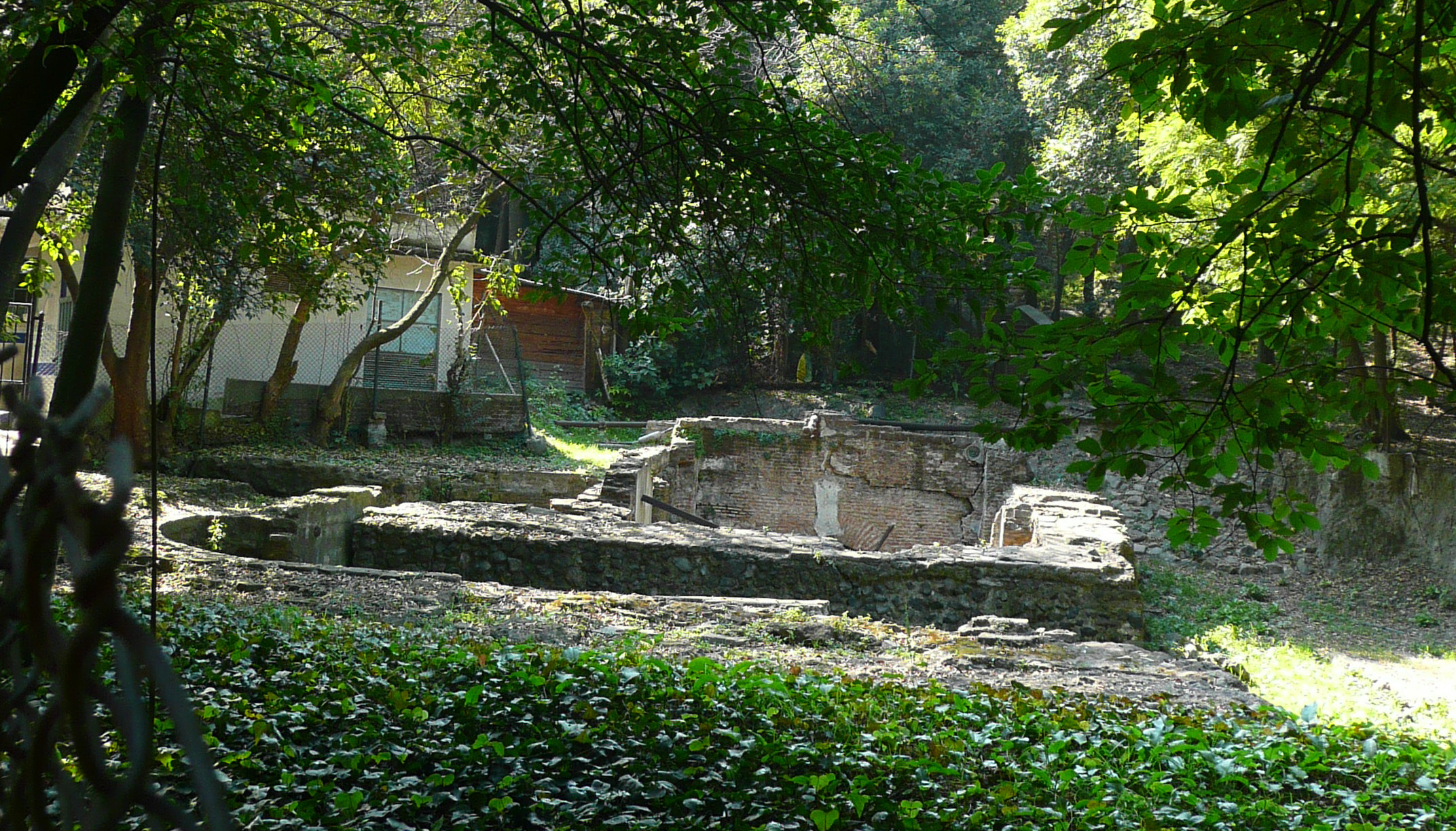 View of the remains of some pools or water tanks used to capture water from the springs at Chapultepec in the colony and served the Chapultepec aqueduct located in the Bosque de Chapultepec in Mexico City, southeast side of the hill of Chapultepec , photo taken on October 23, 2010.